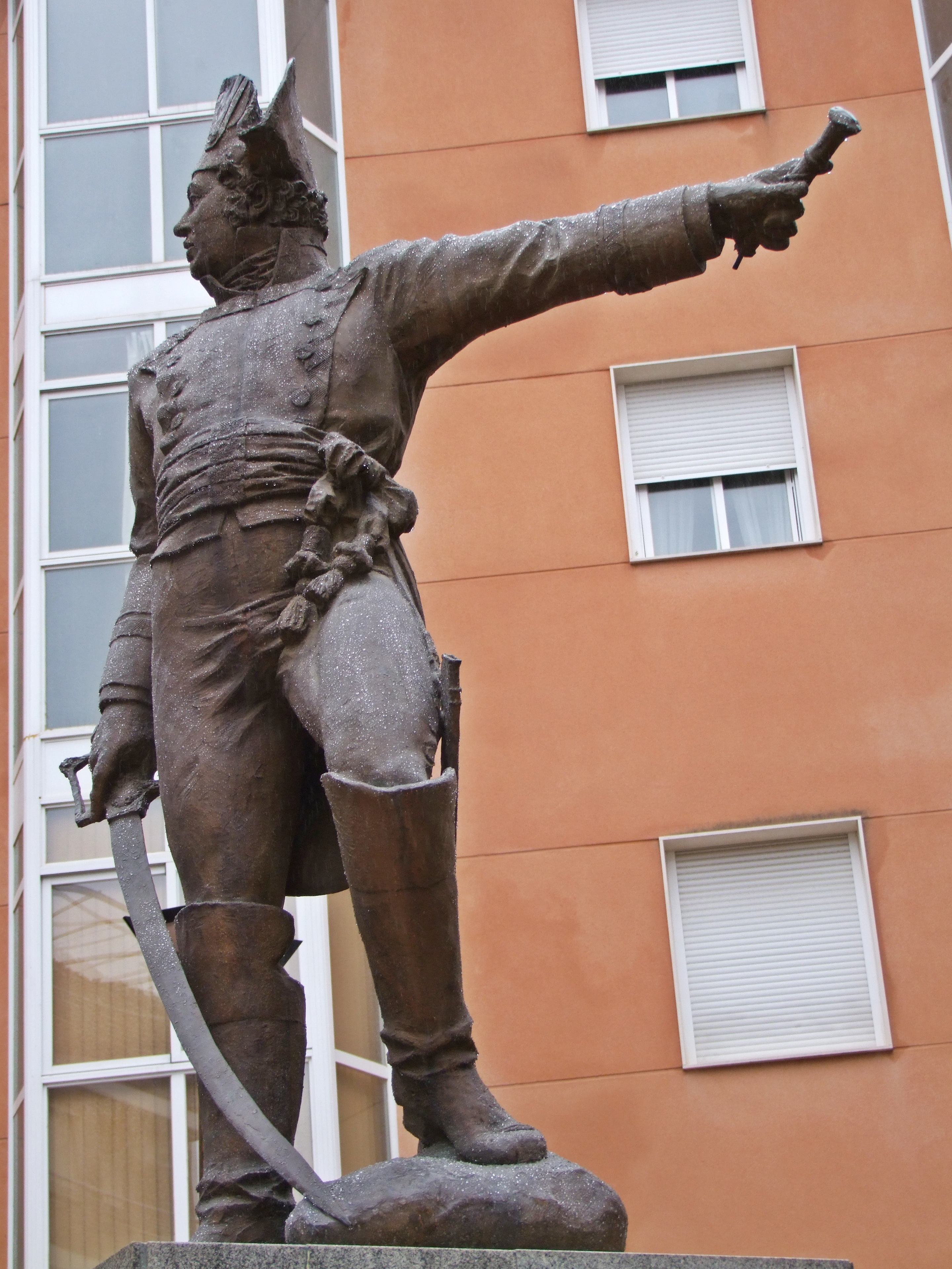 Statue of General Teodoro Reding (Theodor von Reding von Biberegg), aide-de-camp to General Francisco Javier Castaños at the victorious Battle of Bailén (19 July 1808) over the French napoléonic invader. Bronze sculpture by Francisco Javier Galán Domingo (b. Madrid, 1968), unveiled on July 19, 2008 to commemorate the bi-centenary of the Victory.